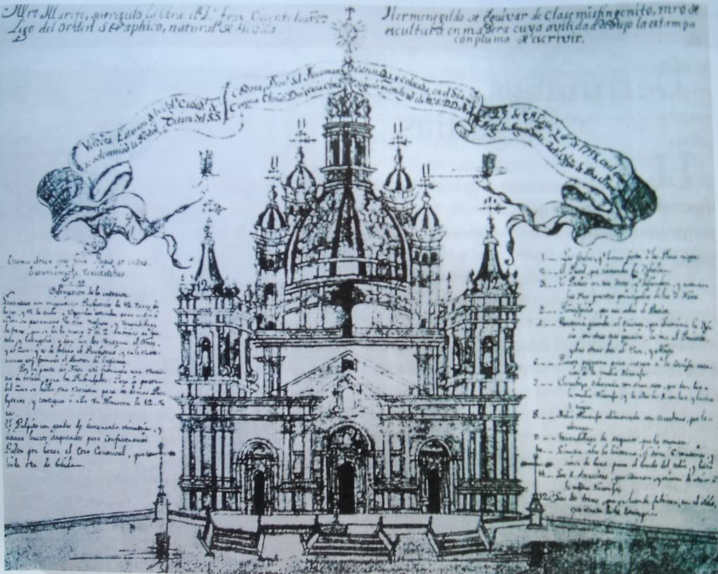 Draw of main church of Cordoba, Argentina, in 1759.